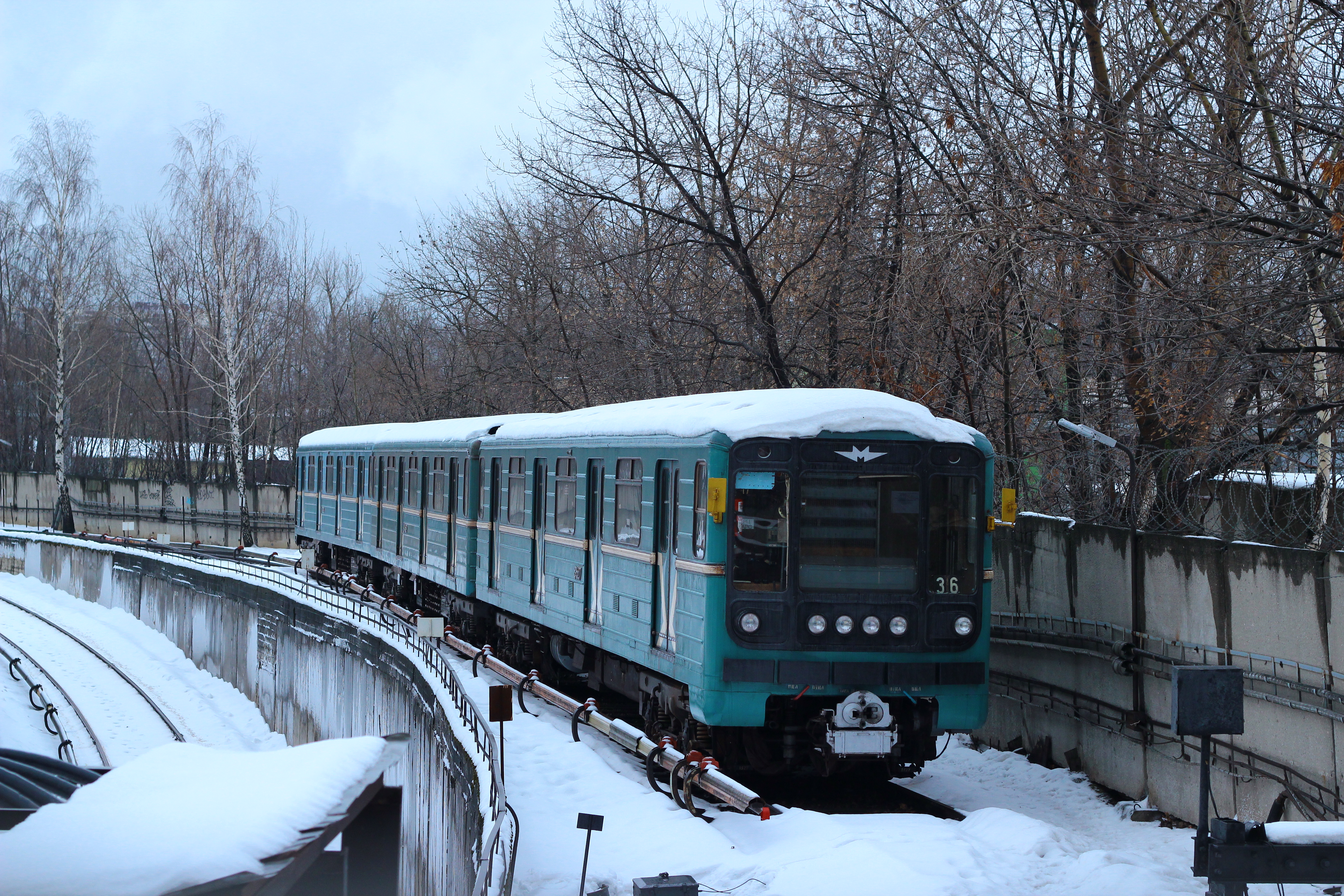 Metro car type 81-717 in "Novogireevo" depot.